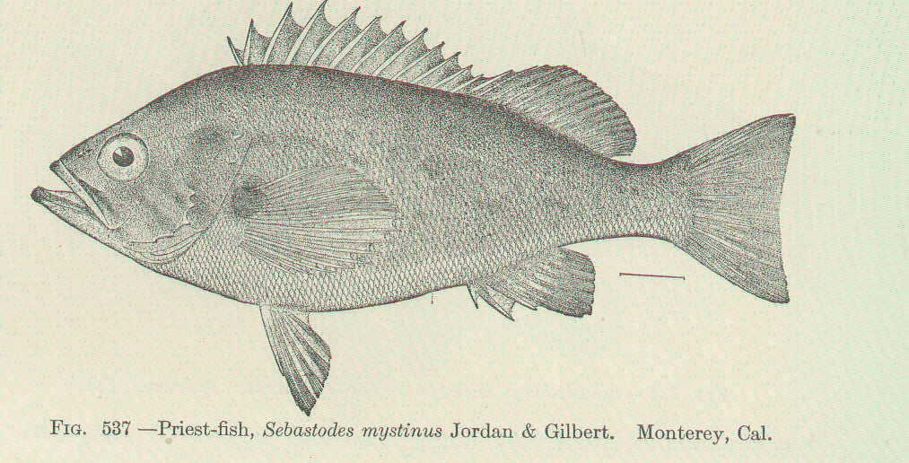 Priest-fish, Sebastodes mystinus Jordan & Gilbert. Monterey, Cal. Subject: Sebastes Tag: Fish